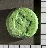 ECSTASY MIMIC TABLET (CONTAINING BENZYLPIPERAZINE (BZP), METHAMPHETAMINE, AND CAFFEINE) IN SIKESTON, MISSOURI Photo 1 The Missouri State Highway Patrol Troop E Laboratory (Cape Girardeau) recently received one round, green tablet with a poorly defined logo, suspected “Ecstasy” (see Photo 1). The tablet was seized in Sikeston, Missouri by the Sikeston Department of Public Safety (details sensitive; Sikeston is about 150 south of St. Louis). The tablet was 9 millimeters in diameter by 3 millimeters thick, and weighed 290 milligrams. Analysis by color testing (Marquis and Methedrine) and GC/MS, however, indicated not MDMA but rather benzyl piperazine (BZP), methamphetamine, and caffeine in an approximate 300:6:85 ratio (based on the TIC; not formally quantitated). This was the first submission of BZP in any form to the laboratory. [Editor’s Notes: The logo may be four “playing card”-type diamonds arranged in a diamond pattern. Informal inquiries suggest that this is a new logo, not previously reported in either Europe or the U.S. The weight of the tablet (290 milligrams) is rather high for the tablet dimensions (9 x 3 millimeters), but was confirmed by a second weighing, suggesting that it was very highly compressed.]